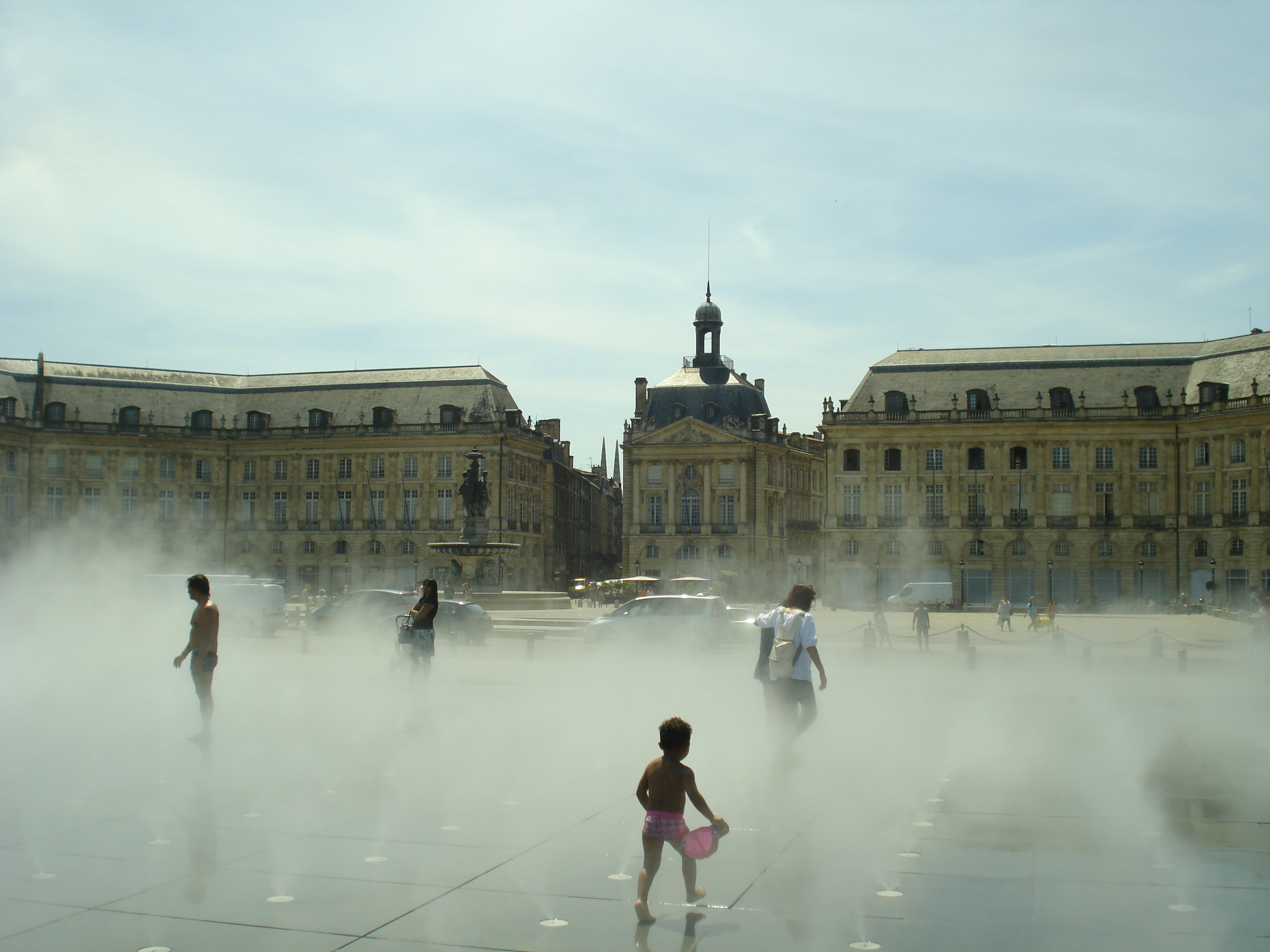 Bordeaux - July 2012